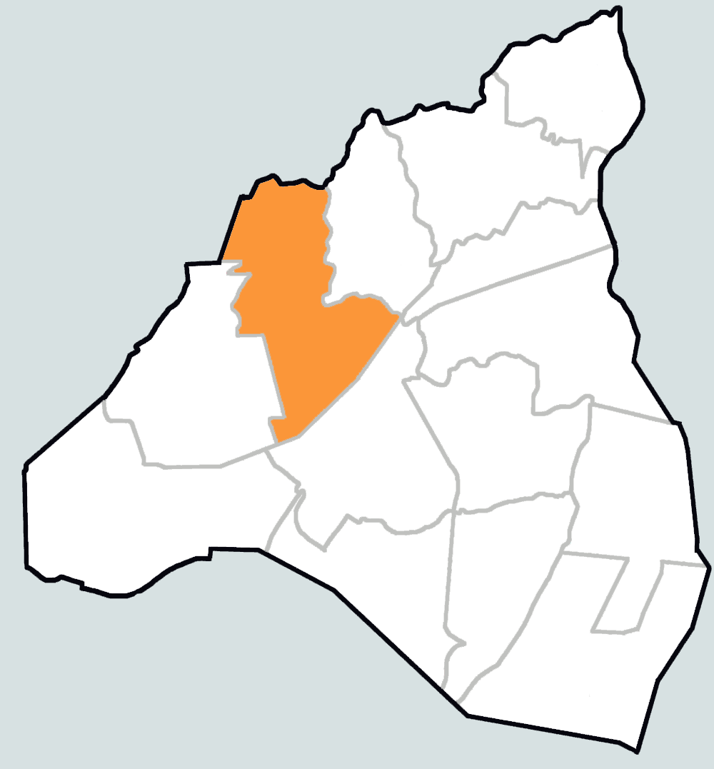 Cheongyangni-dong in Dongdaemun-gu